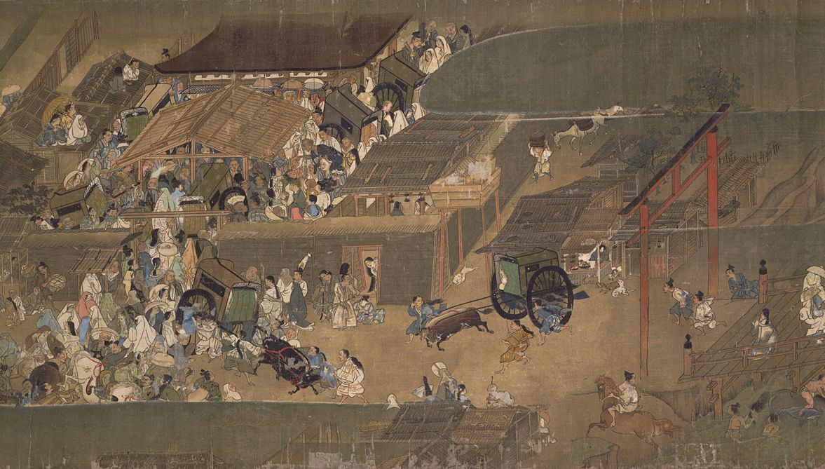 Illustrated Biography of the Priest Ippen： Volume 7 (絹本著色一遍上人絵伝, kenpon choshoku ippen shōnin eden). This is part of the handscroll located at the Tokyo National Museum in Tokyo. Color on silk. Size of the full scroll: 37.8 cm x 802.0 cm. The scroll has been designated as National Treasure of Japan in the category paintings.